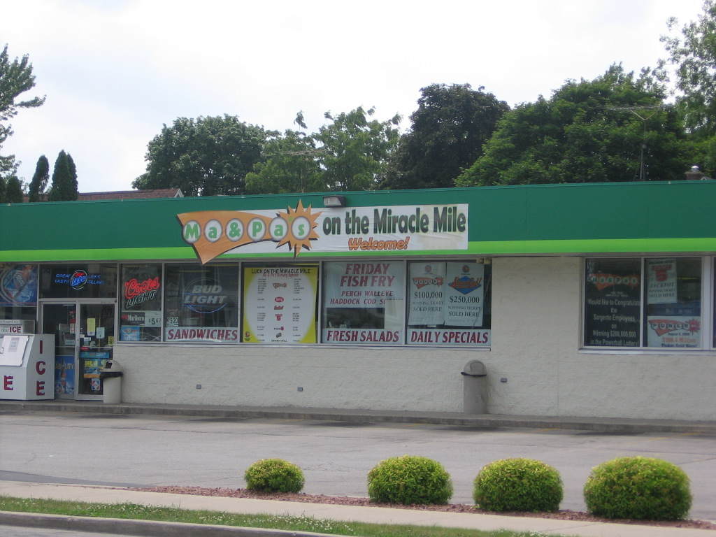 For use in Fond du Lac County and city articles. Ma & Pa's on the miracle mile.